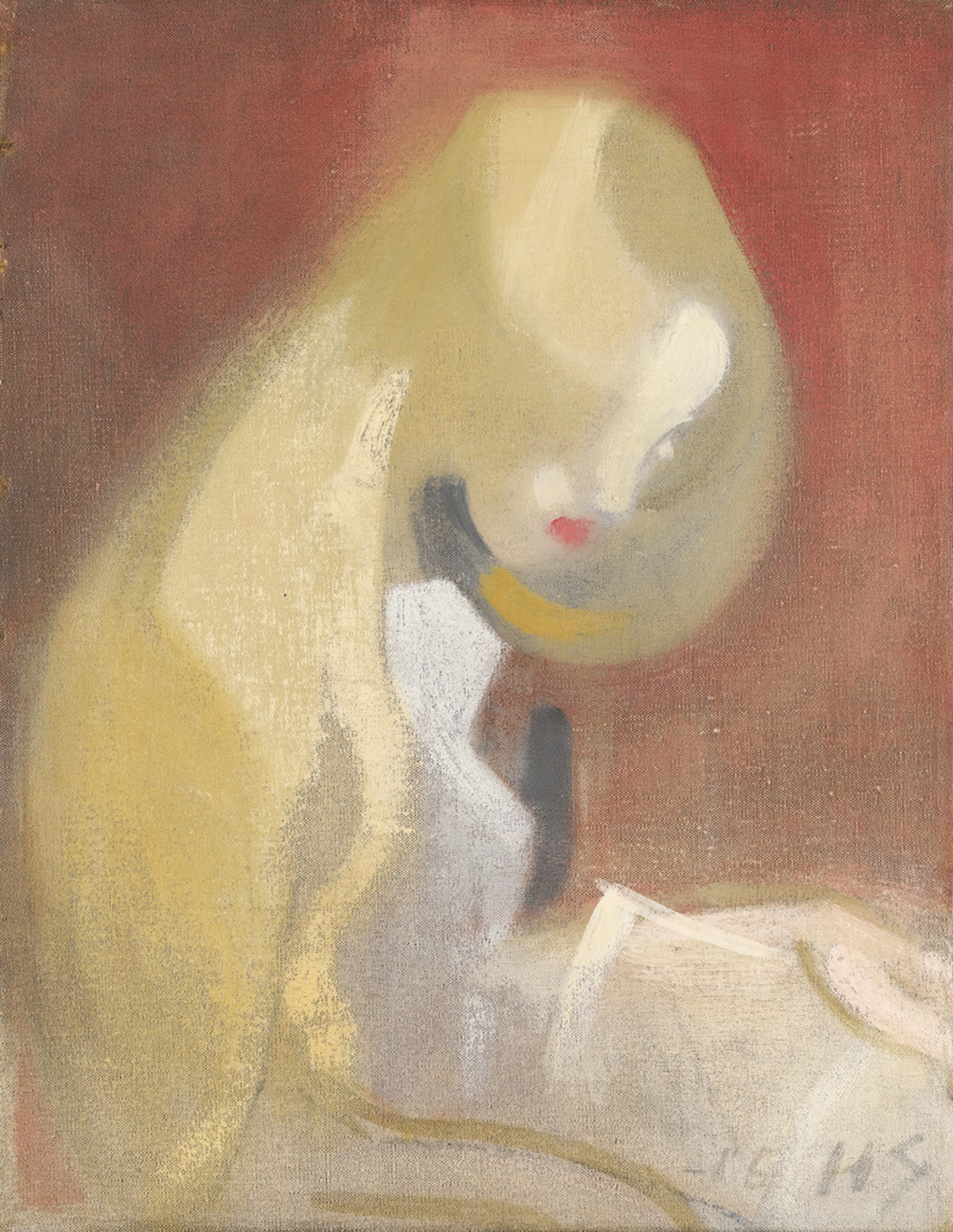 Schjerfbeck's painting Girl with Blonde Hair. The model was Impi Tamlander, who lived in Hyvinkää in the same neighborhood as Schjerfbeck.